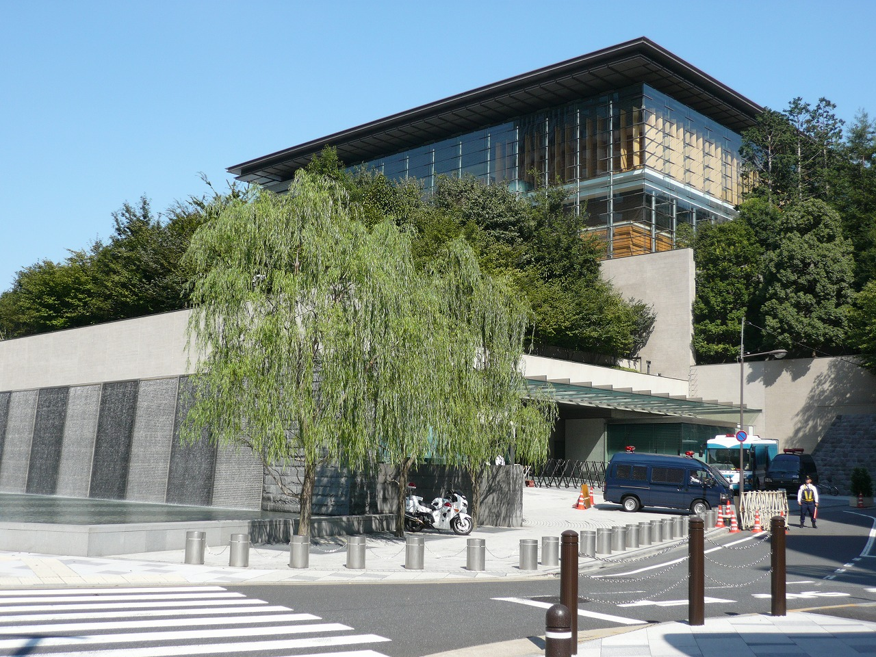 総理官邸 Sōri Kantei, the Prime Minister's office